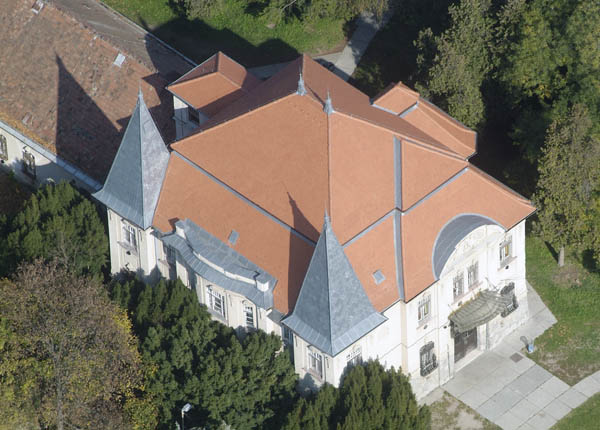 Pécel, Hungary, aerial photography